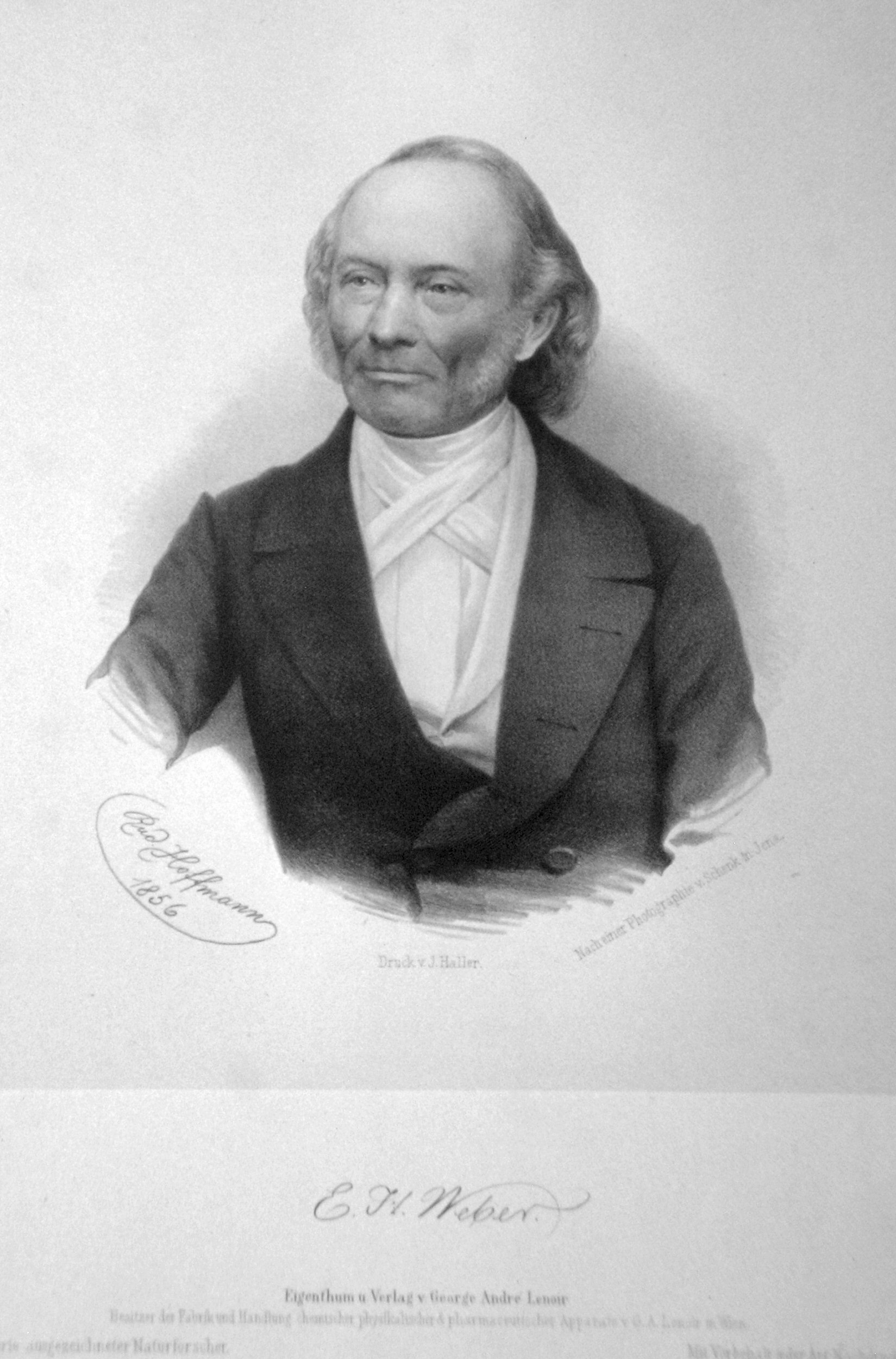 Ernst Heinrich Weber (1795–1878), Physiologist, Lithography by Rudolf Hoffmann, 1856. After a Photo by Schenk (Jena). From Gallerie ausgezeichneter Naturforscher (Vienna)